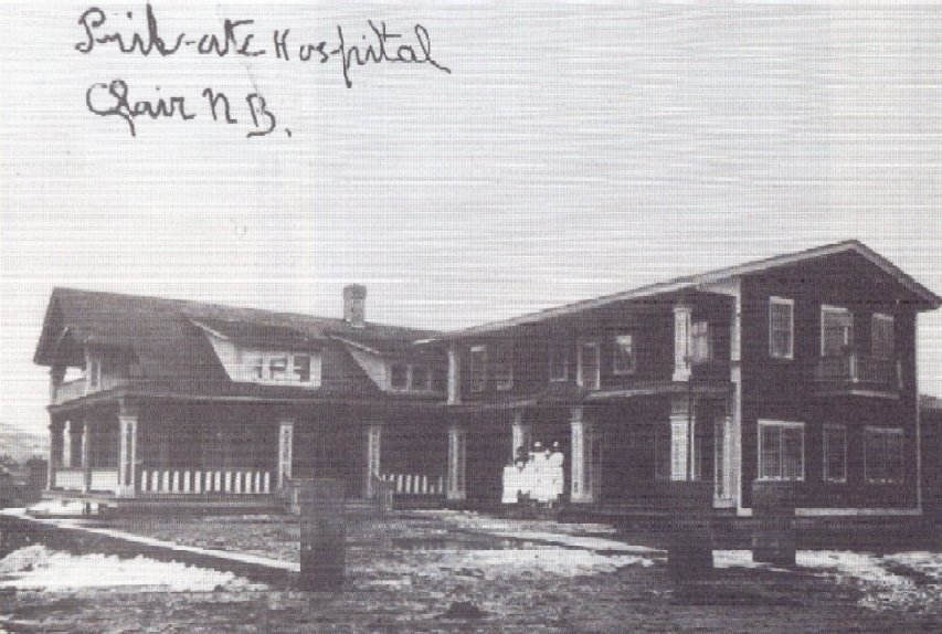 The P.C. Laporte hospital in Clair, New Brunswick, circa 1920.